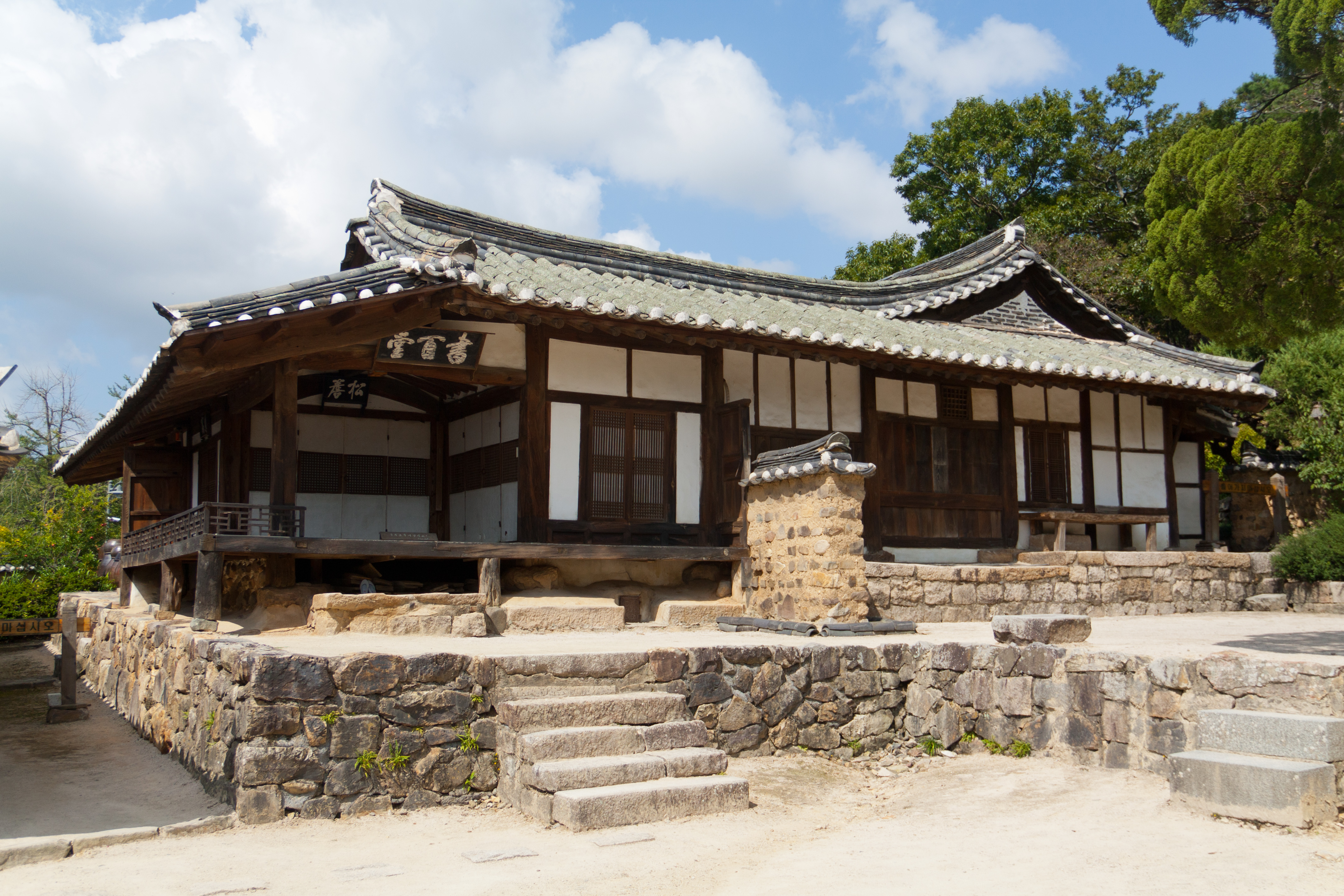 Seobaekdang